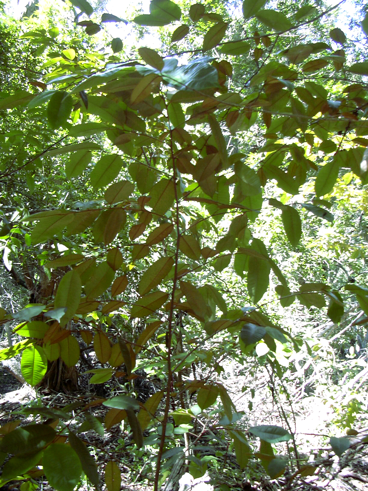 Chrysophyllum oliviforme (habit). Location: Maui, Kauhikoa hill